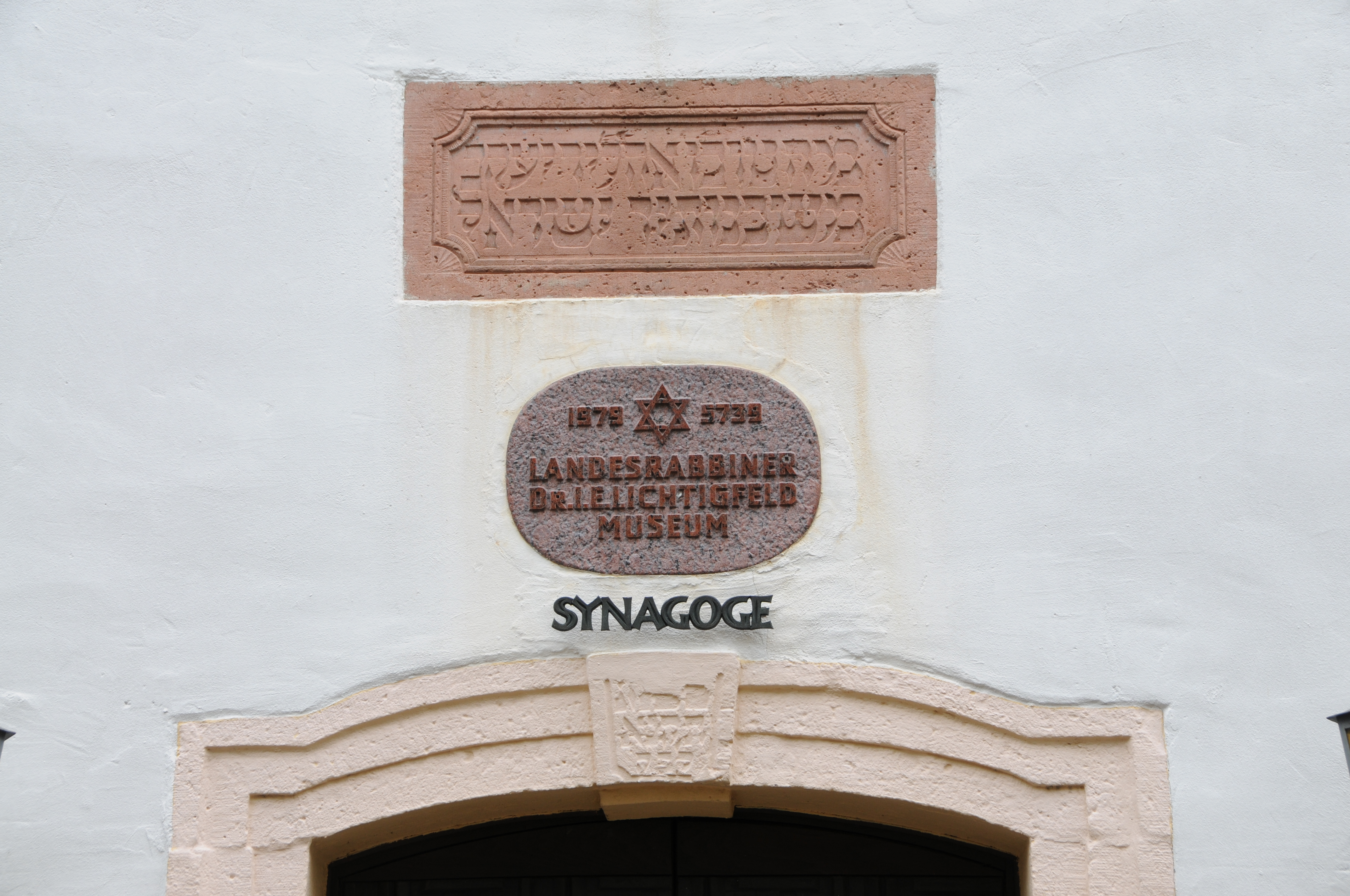 Michelstadt (Germany), synagogue, inscriptions above the entrance